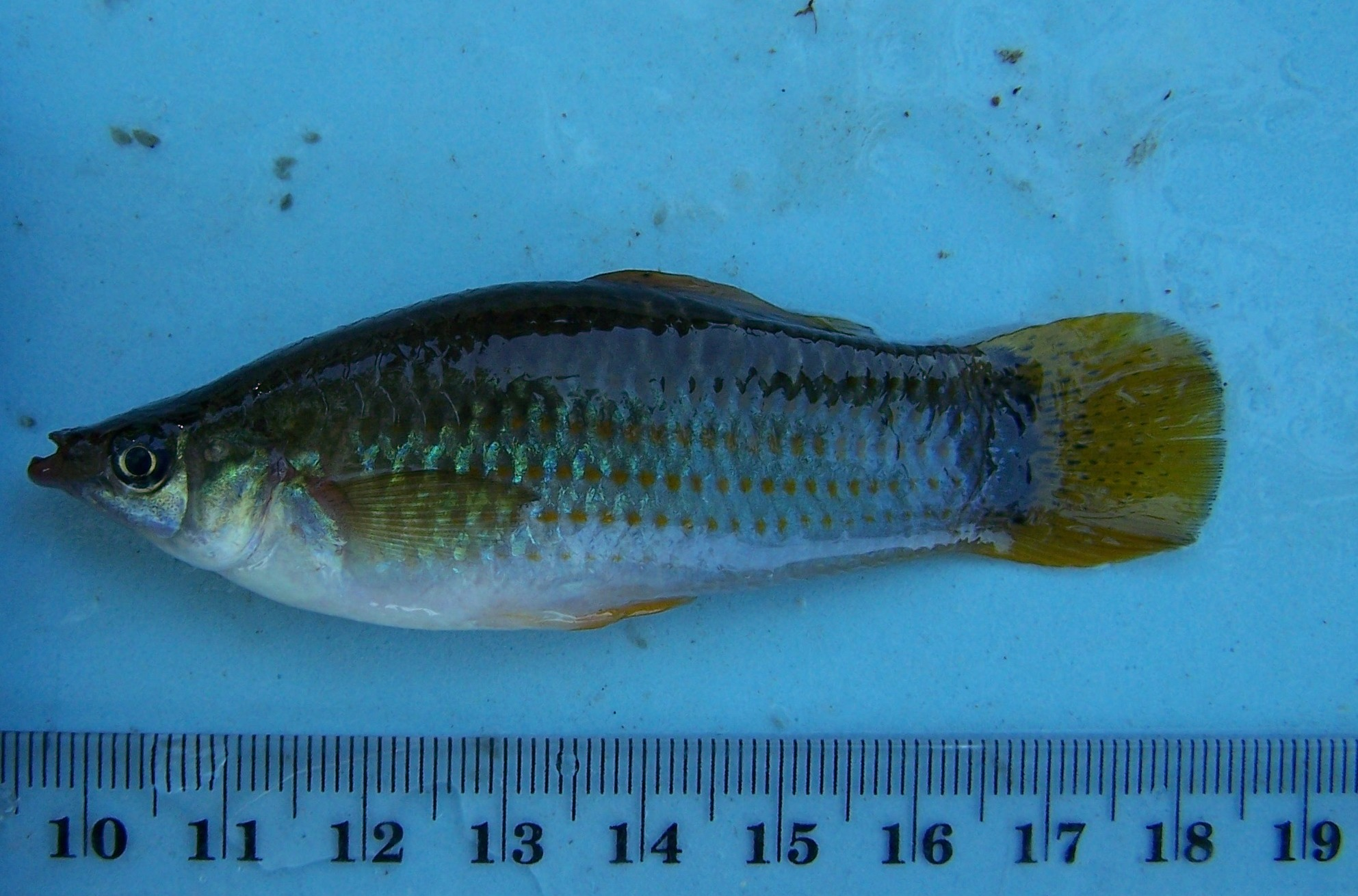 A male Poecilia gillii molly captured in the Guanacaste Province of Costa Rica.